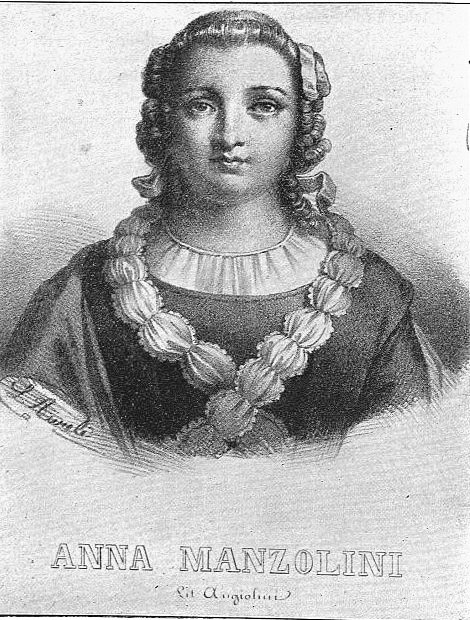 Anna Morandi Manzolini was an Italian sculptor and lecturer of anatomy in University of Bologna